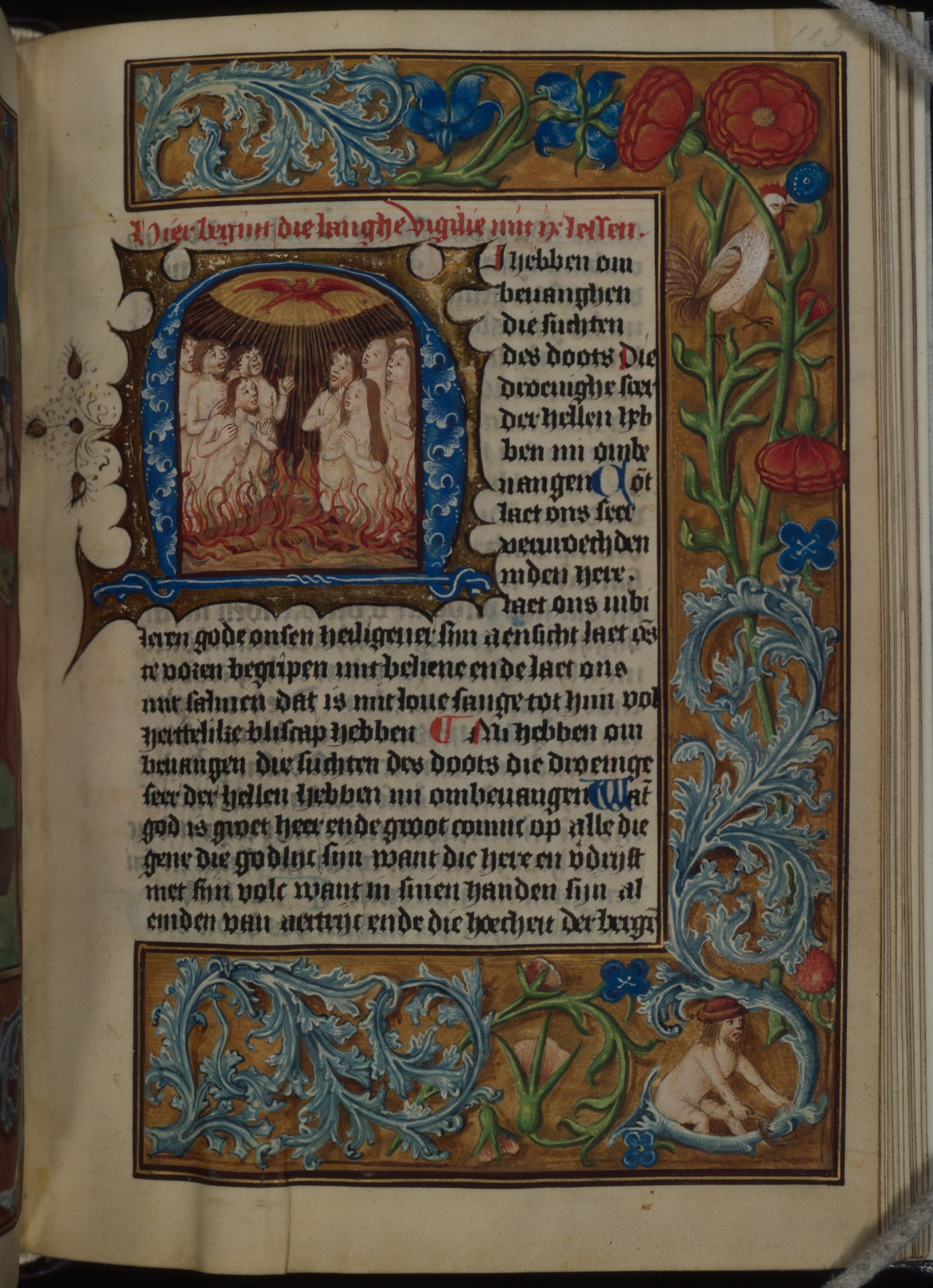 Page: 113 recto Late 15th c book of hours, containing 6 full-page illuminated illustrations with several pages of illuminated initial letters and marginal pictures. Utrecht use. In Dutch. Call No: Gar 8 Location: John Work Garrett Library